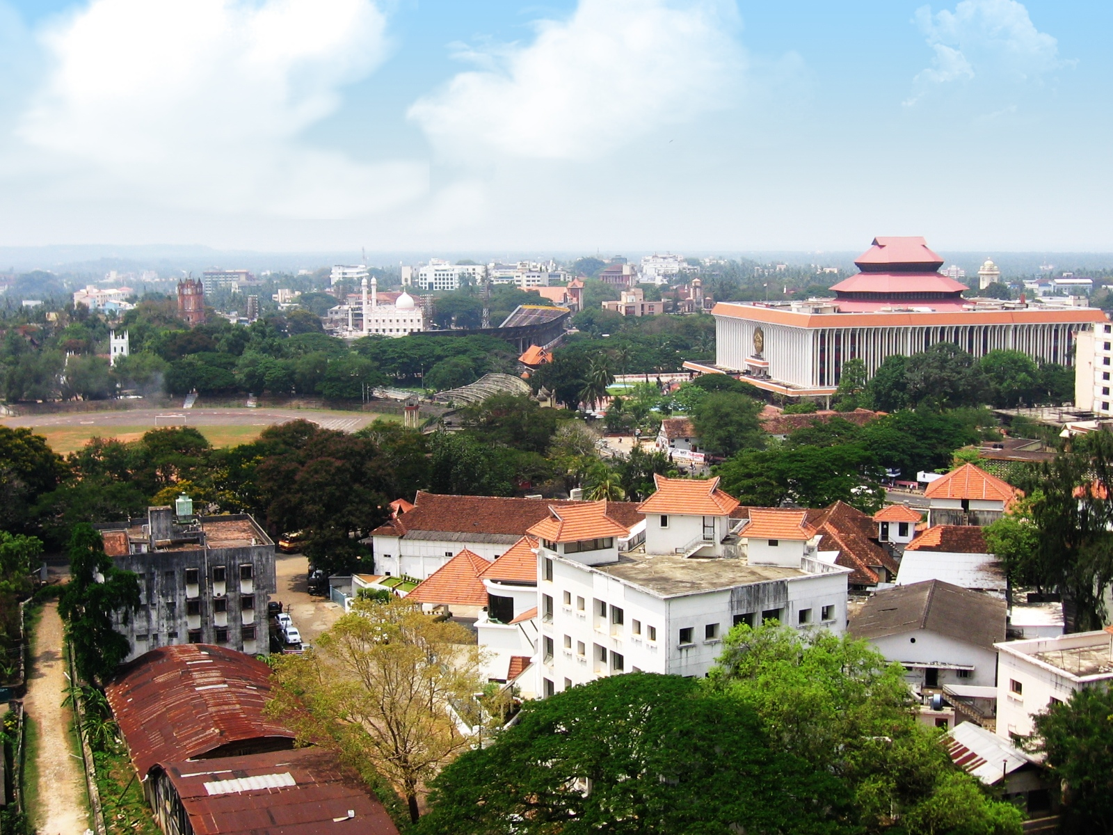 Copyrighted to Mr.Rajith Mohan. Posting after obtaining his permission.